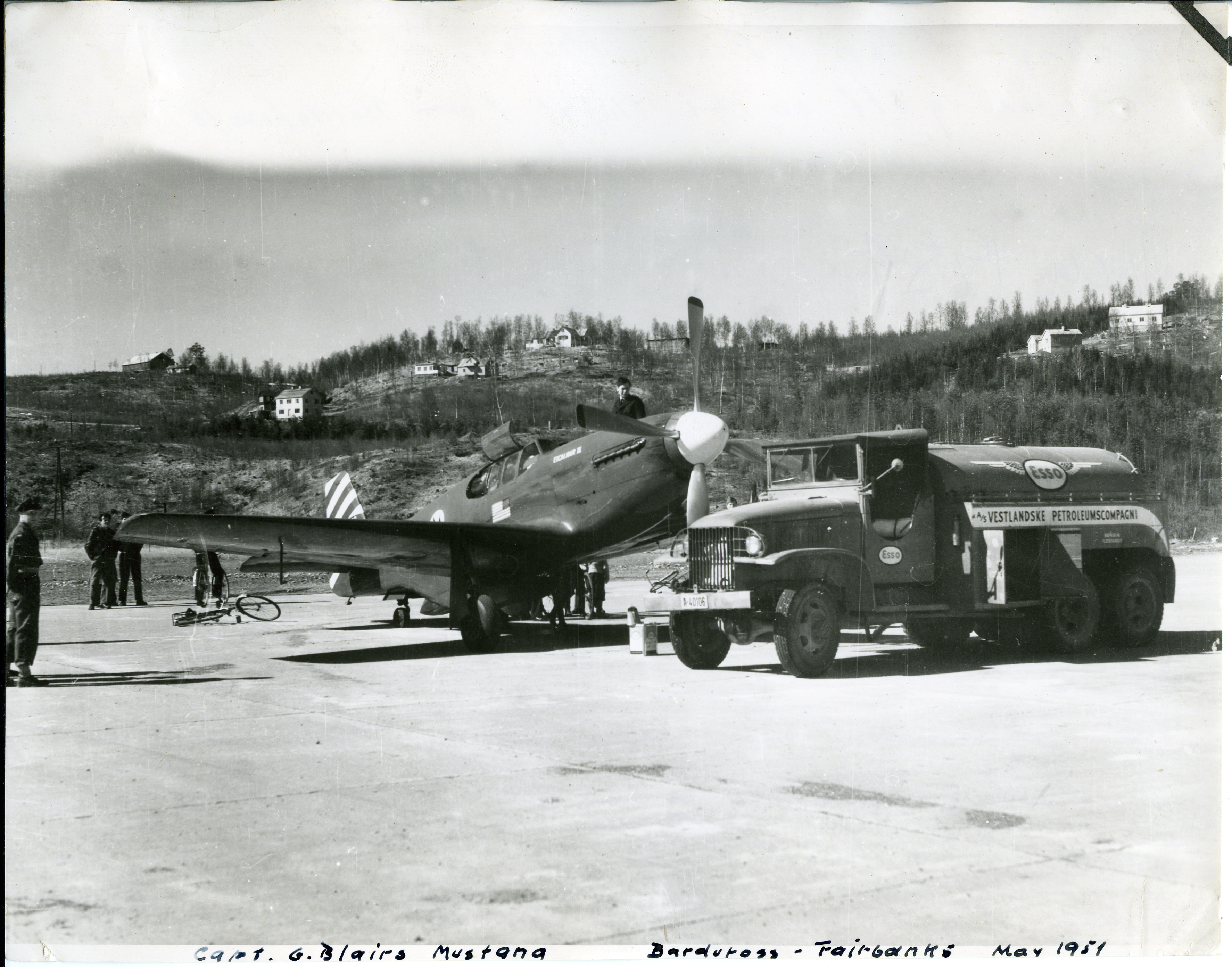 Essotankbil, Bardufoss flyplass, mai. Bildetekst: Refuelling of Cap. C. Blair's Mustang at Bardufoss Airport before taking off on the flight from Bardufoss to Fairbanks.